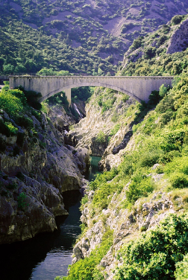 Hérault Gorge, bridge near Saint-Guilhem-le-désert.